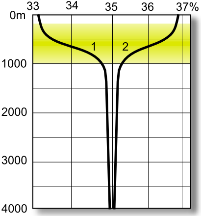 Deep Sea's Saltdensity-Depth graph (No text)